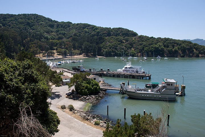 Port of Angel Island